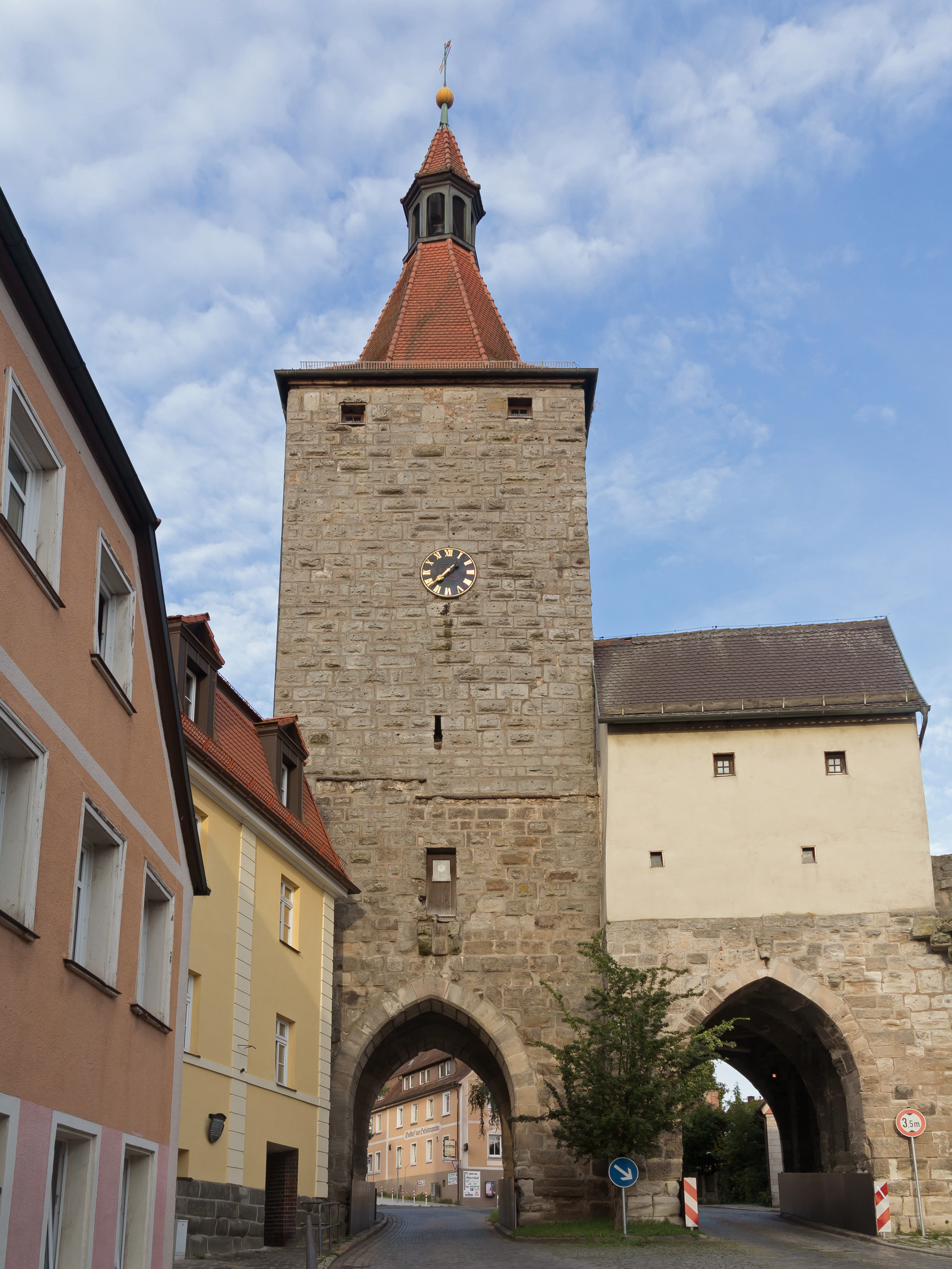 Neustadt an der Aisch, towngate: der Nürnberger Tor